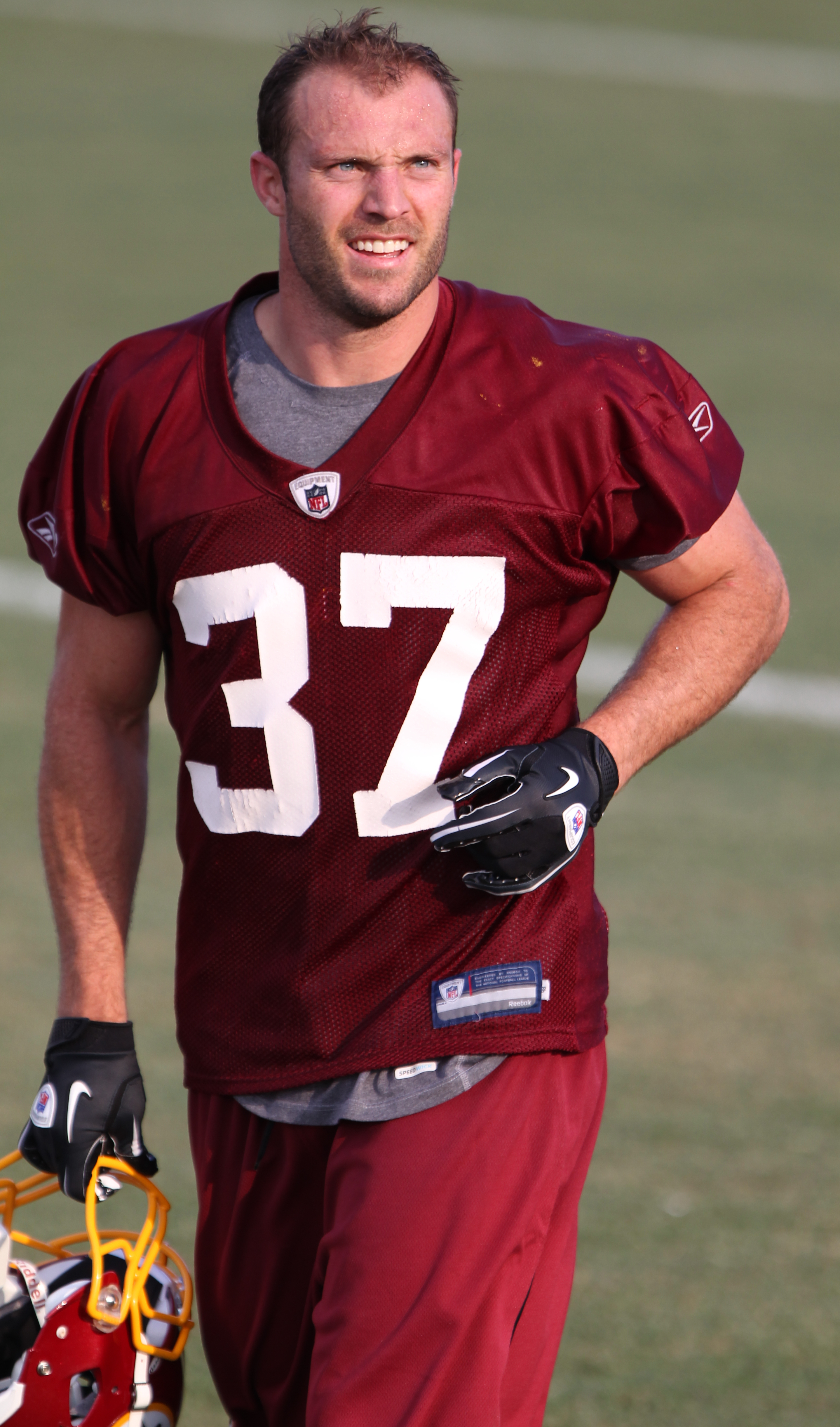 Reed Doughty at Washington Redskins Training Camp August 4, 2011